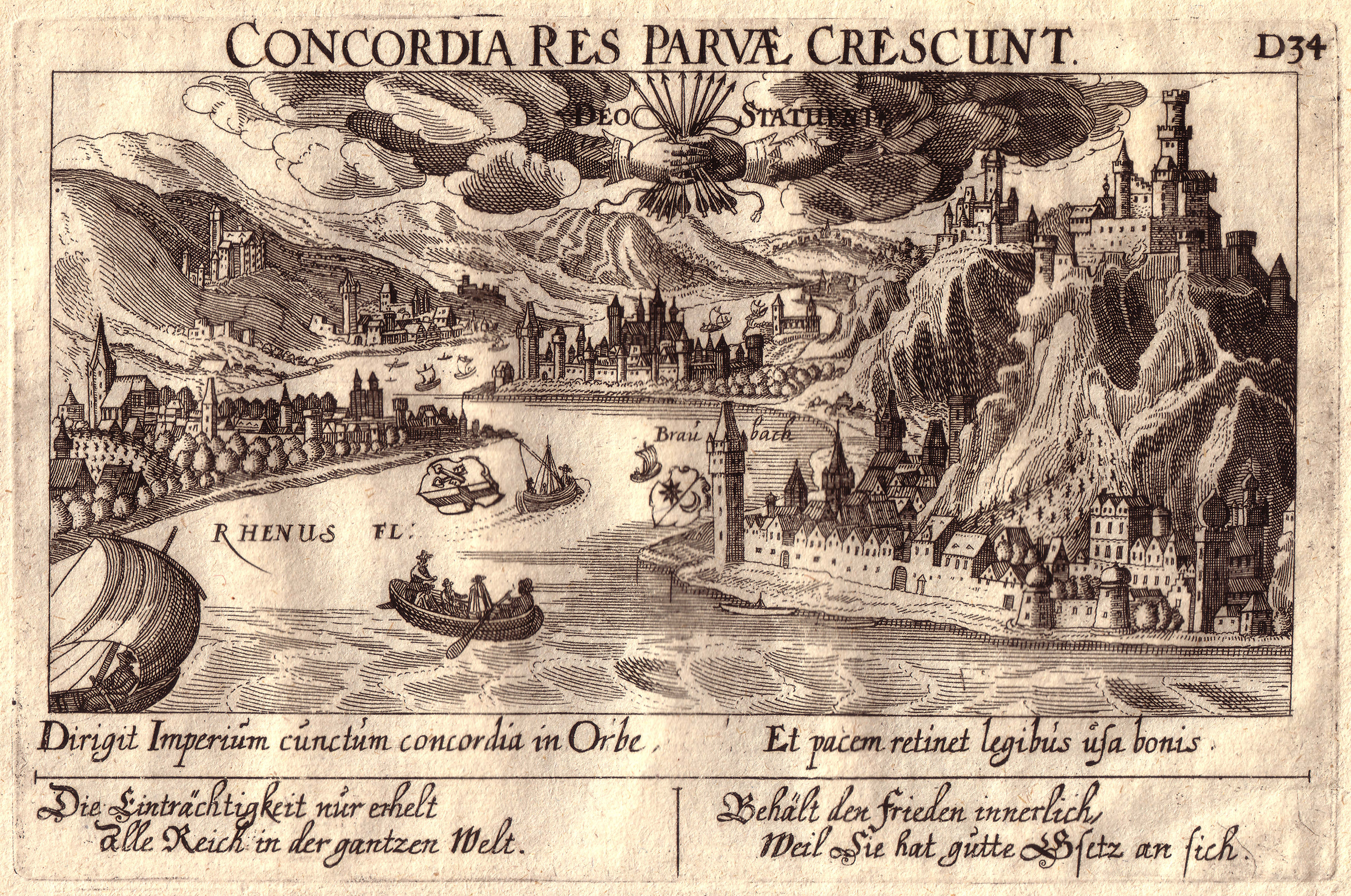 copper engraving: Braubach on the river Rhine (Germany), around 1630.